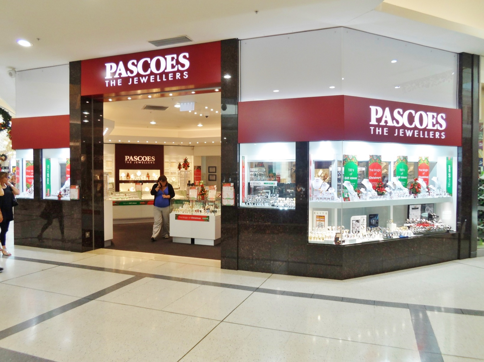 New Zealand retail jeweller Pascoes the Jewellers Riccarton store at Westfield Riccarton in Christchurch, New Zealand in 2013.